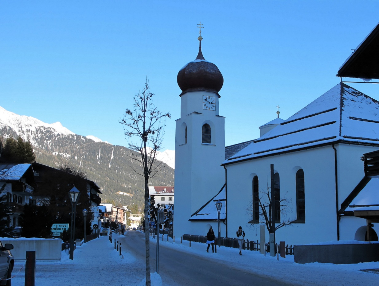 Sankt Anton am Arlberg, Church in Sankt Anton